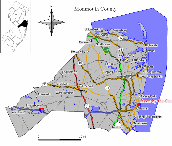 Locator map of Avon-by-the-Sea in Monmouth County, New Jersey